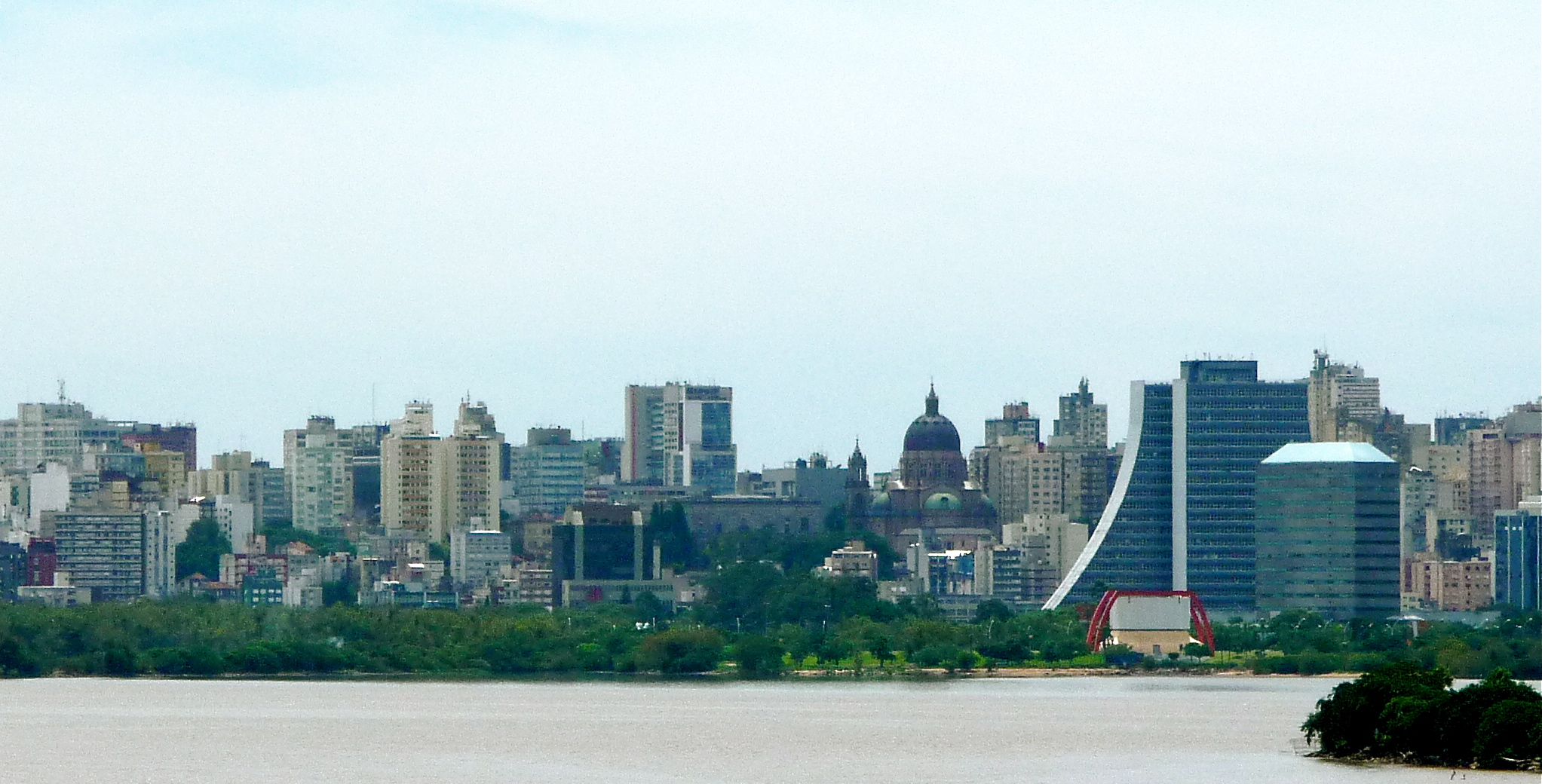 Porto Alegre Skyline. Skyline of Porto Alegre, Brazil, Porto Alegre.